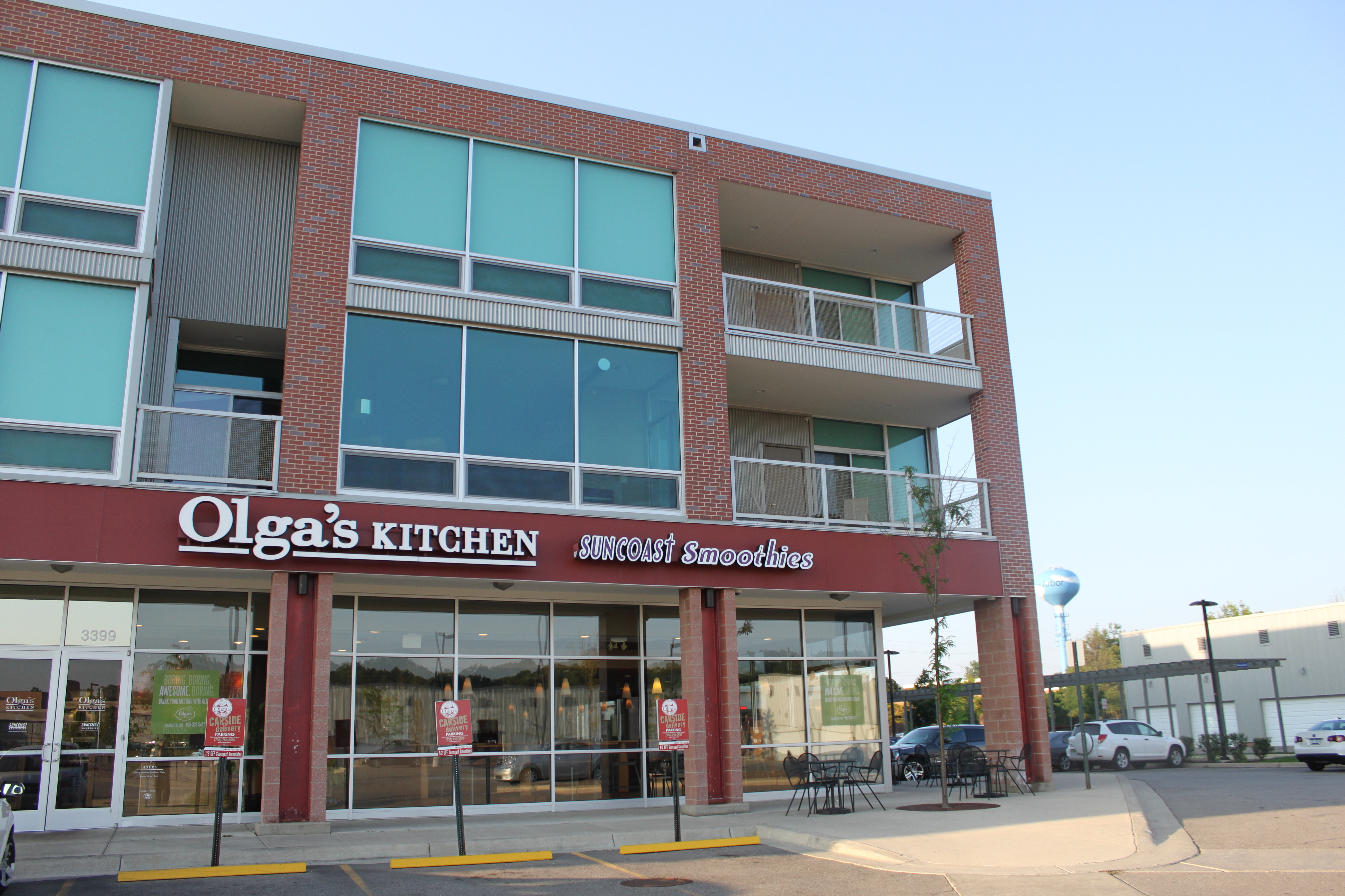 Olga's Kitchen restaurant, 3399 Plymouth Road, Ann Arbor, Michigan